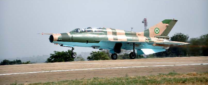 Nigerian F-7